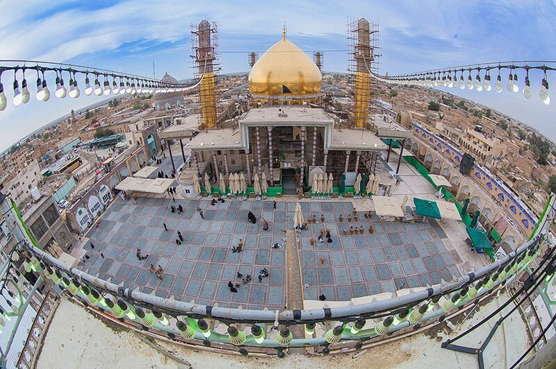 Al-Askari Mosque in Samarra City in Iraq 2017